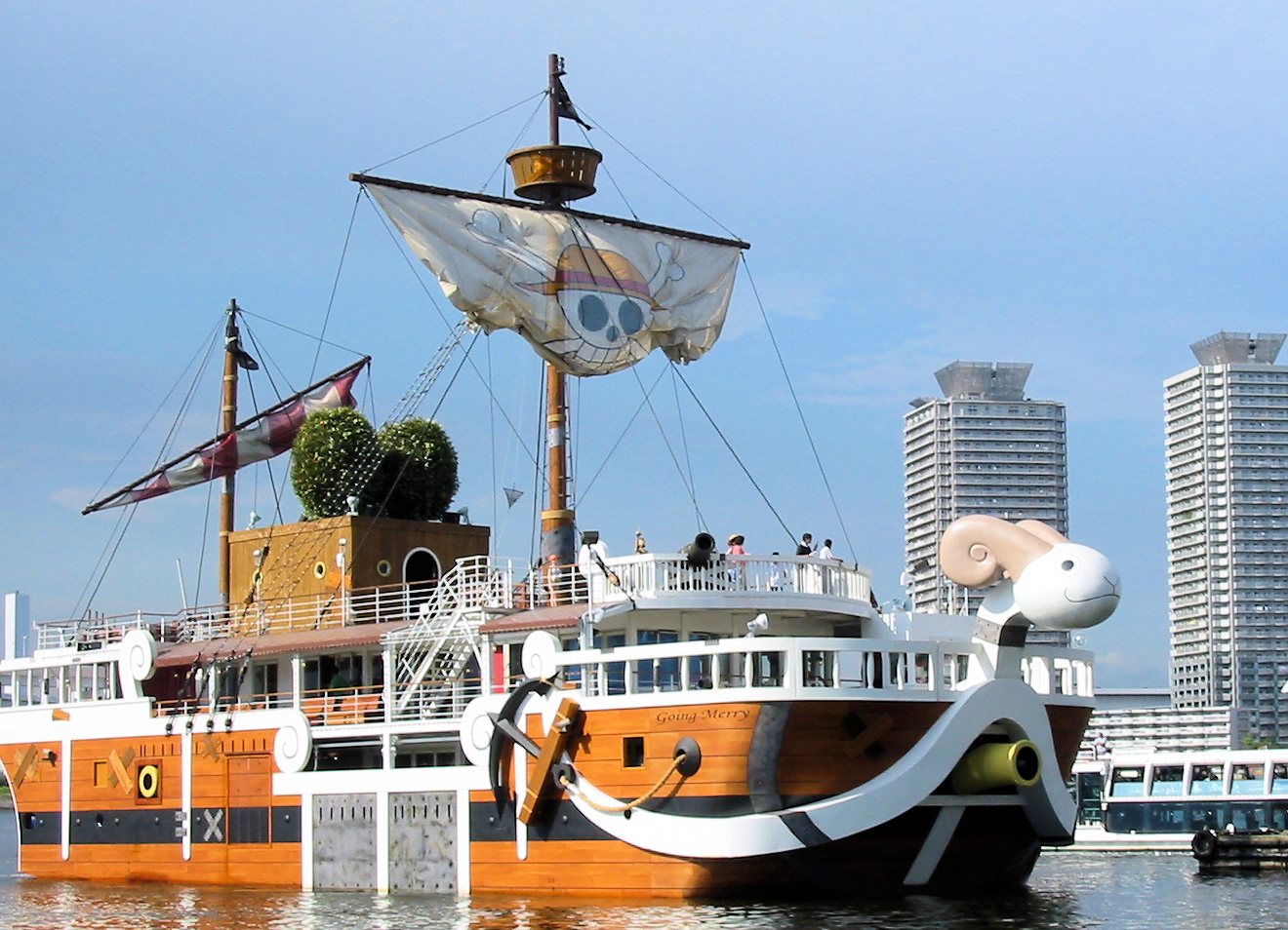 'Going Merry' in Tokyo Bay.